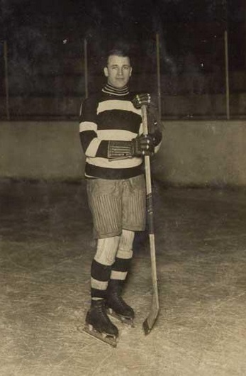 Eddie Gerard with the Ottawa Senators, c. 1913–1914